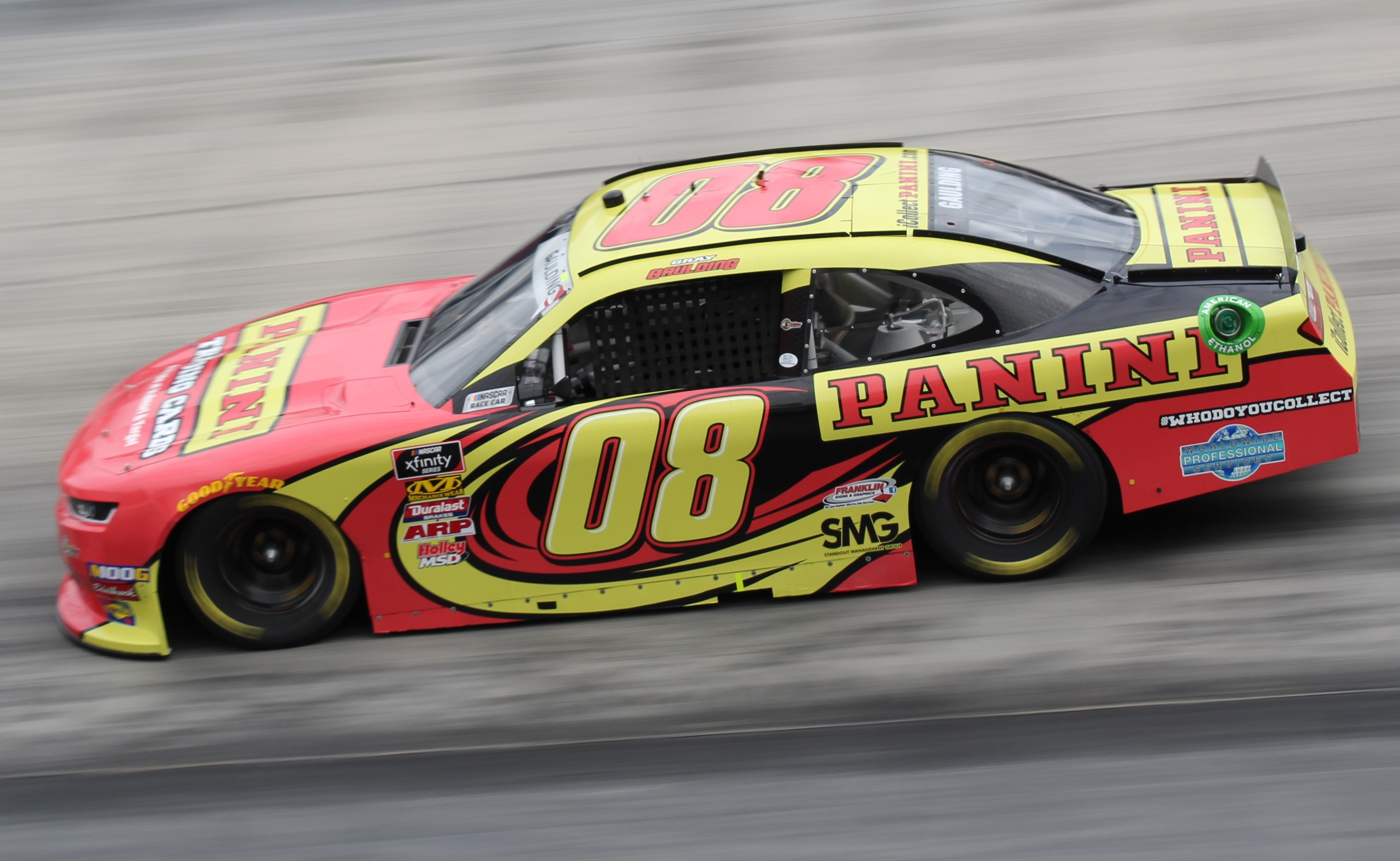 2019 Food City 500